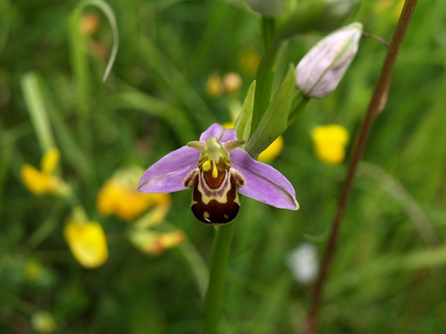 Bee orchid, Aller Brook Local Nature Reserve Ophrys apifera grows in some abundance on the grassy banks of the Aller Brook.